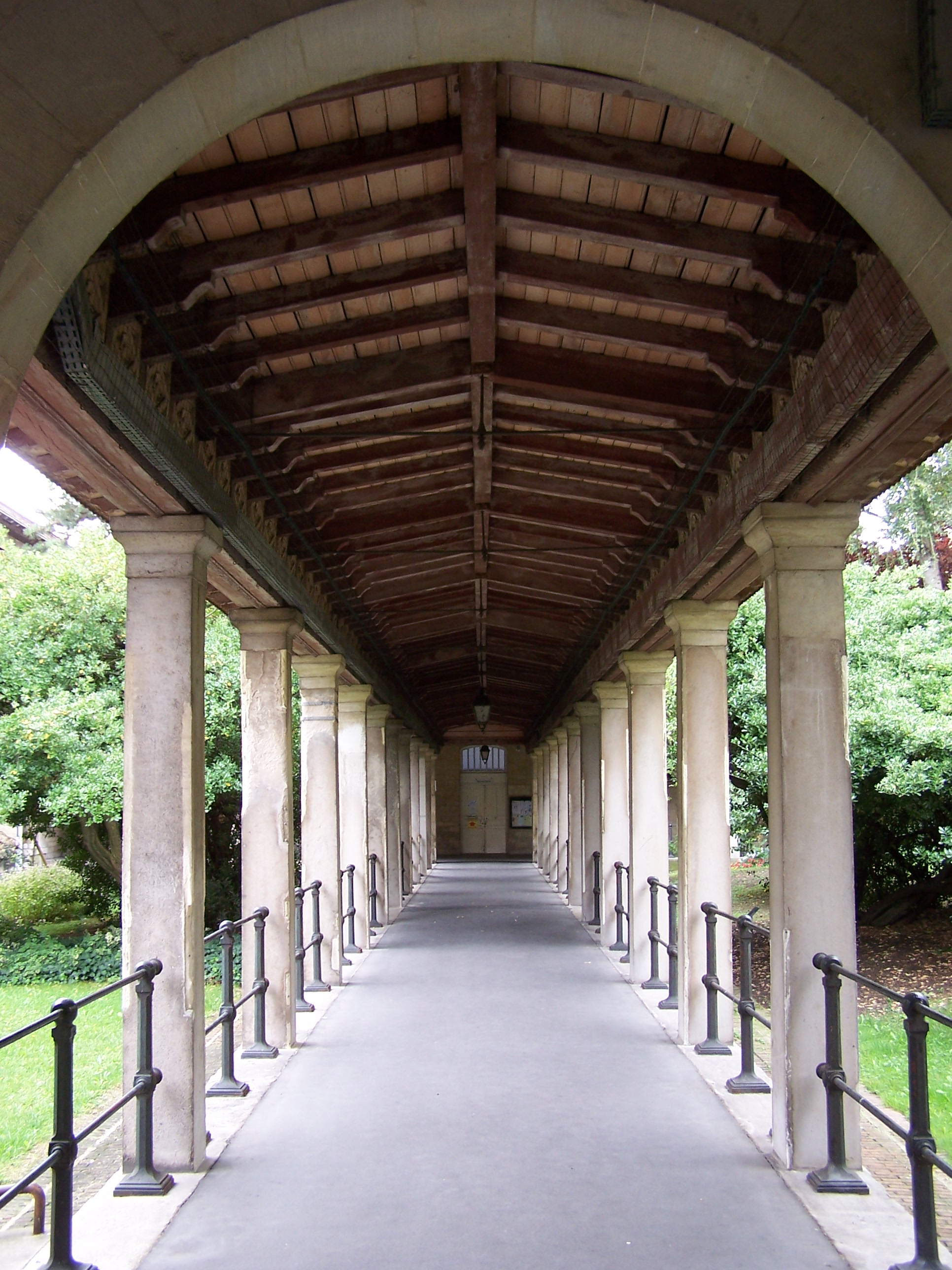 Galerie Pirandello de l'hôpital Sainte-Anne, Paris